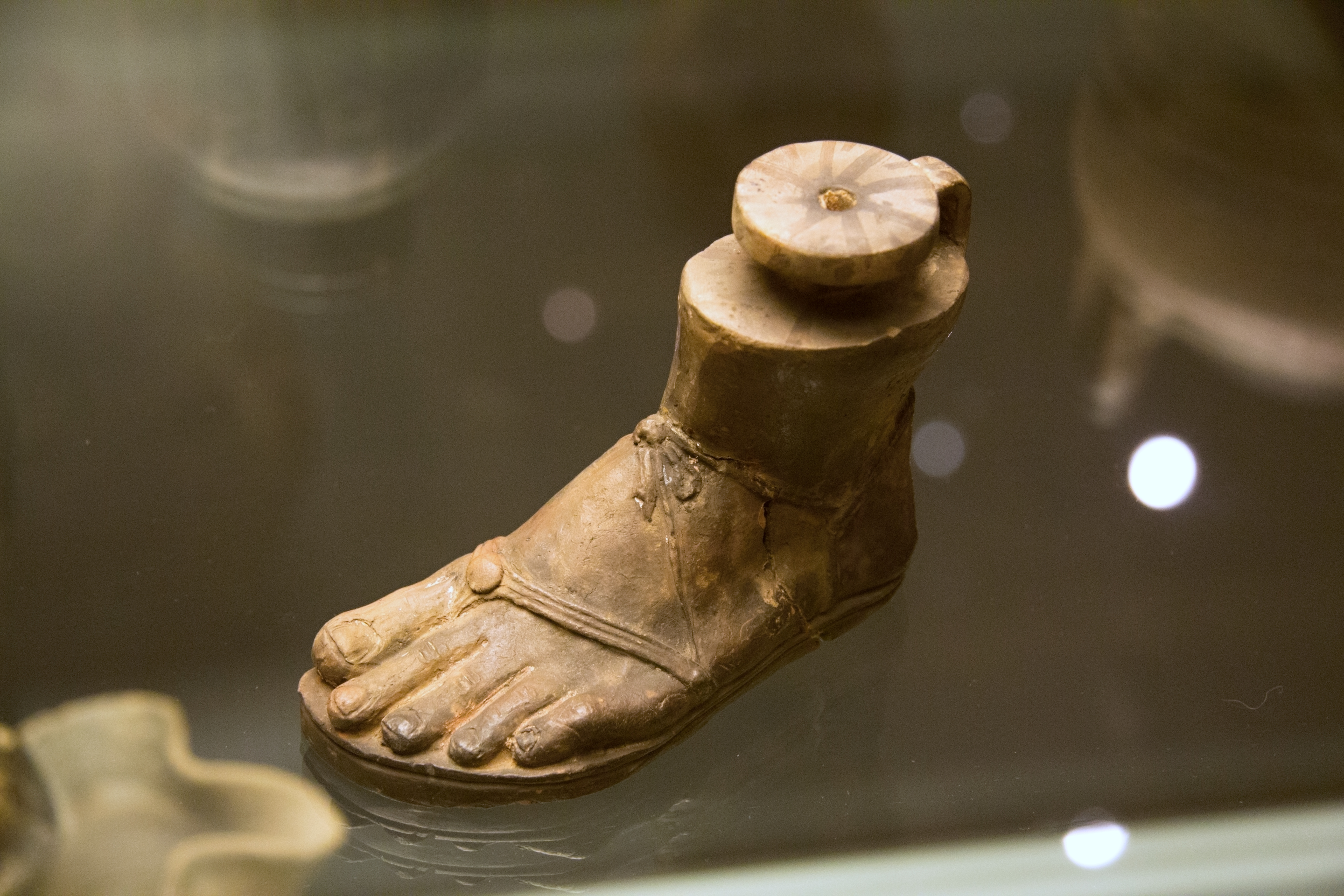 Foot-shaped vessel, East Greek style, late 6th century BC. NG Prague, Kinský Palace, NM-H10 1690.